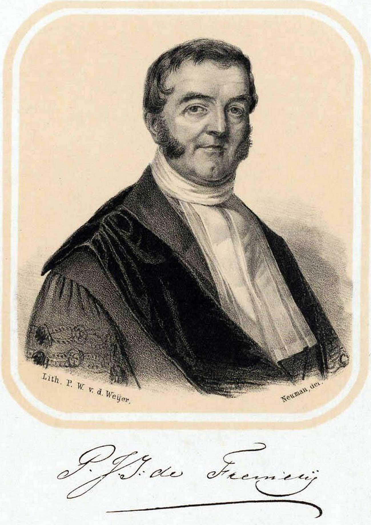 Petrus Johannes Izaak de Fremery (1797-1855) Dutch physician and chemist